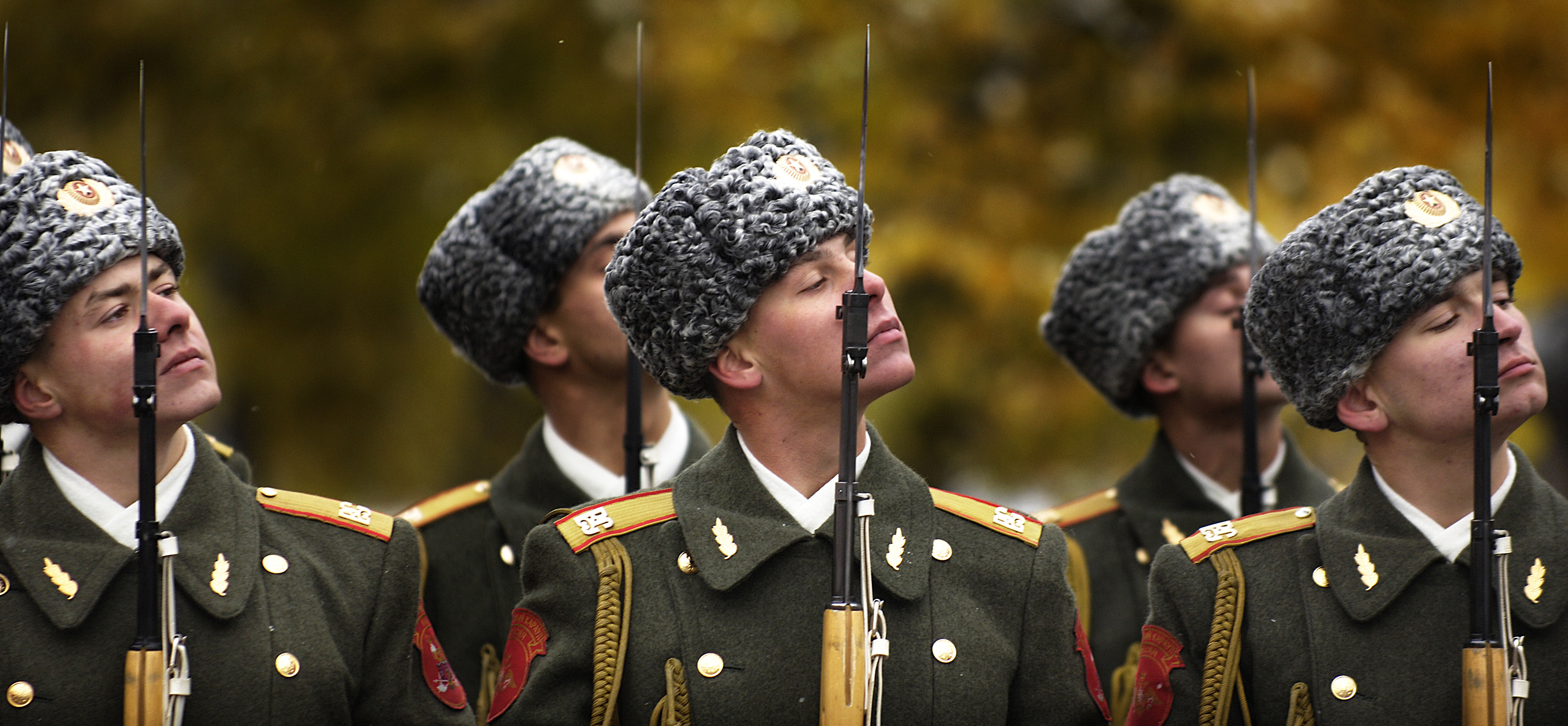 Russian honour guard perform a pass and review as part of a wreath-laying ceremony at the Tomb of the Unknown Soldier in Moscow, Russia